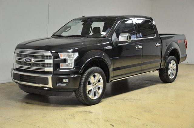 Ford F-150 light-duty truck, 2015 model year